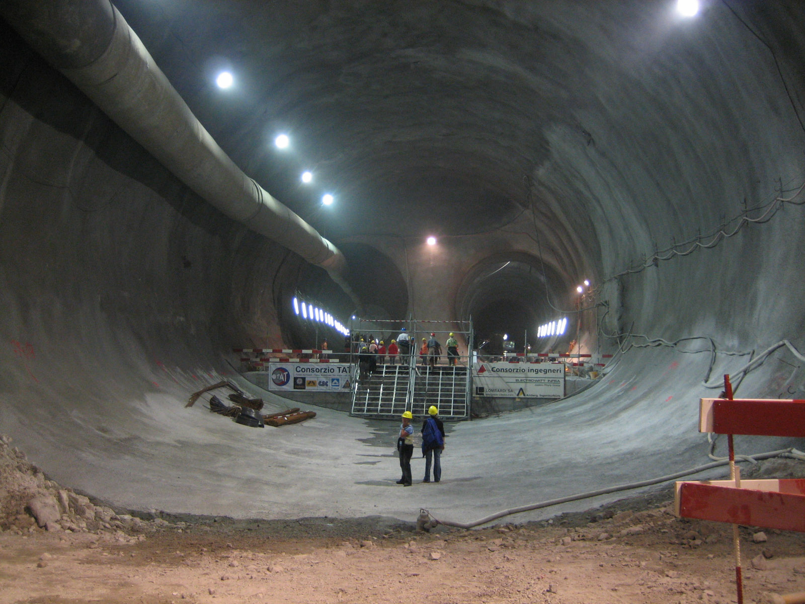 Wye junction (TV-WS, Tunnelverzweigung West-Süd) in the western tube of the Gotthard Base Tunnel at Multi-Function Station Faido, Canton Ticino, Switzerland. The right tunnel is the main western bore (EST-WS, Einspurtunnel West-Süd), the left tunnel (VT-S, Verbindungstunnel Süd) is a connection into the main eastern bore (EST-OS, Einspurtunnel Ost-Süd). Photo taken on an open doors day. Temperature is 28°C (would be around 40°C without cooling), humidity is 100% or above (almost steamy climate) Once completed the 2 km long MFS Faido will be a multi-purpose station 2000 meters below ground level for maintenance and emergency evacuation purposes accessible through a 2.7 km long tunnel with a gradient of more than 12%. The entrance of the access tunnel is in Polmengo TI close to the village of Faido.